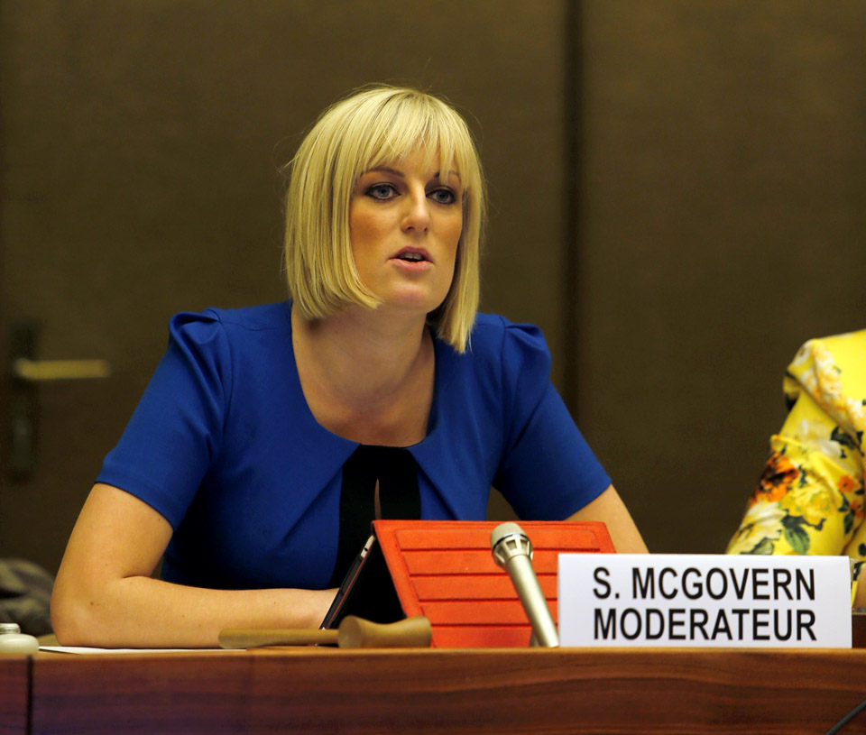 Ms. Stephanie McGovern, Business Presenter of BBC Breakfast at the Plenary Session II: Trade and Investment Rules for Inclusive and Sustainable Development UNCTAD Public Symposium 25 June 2013